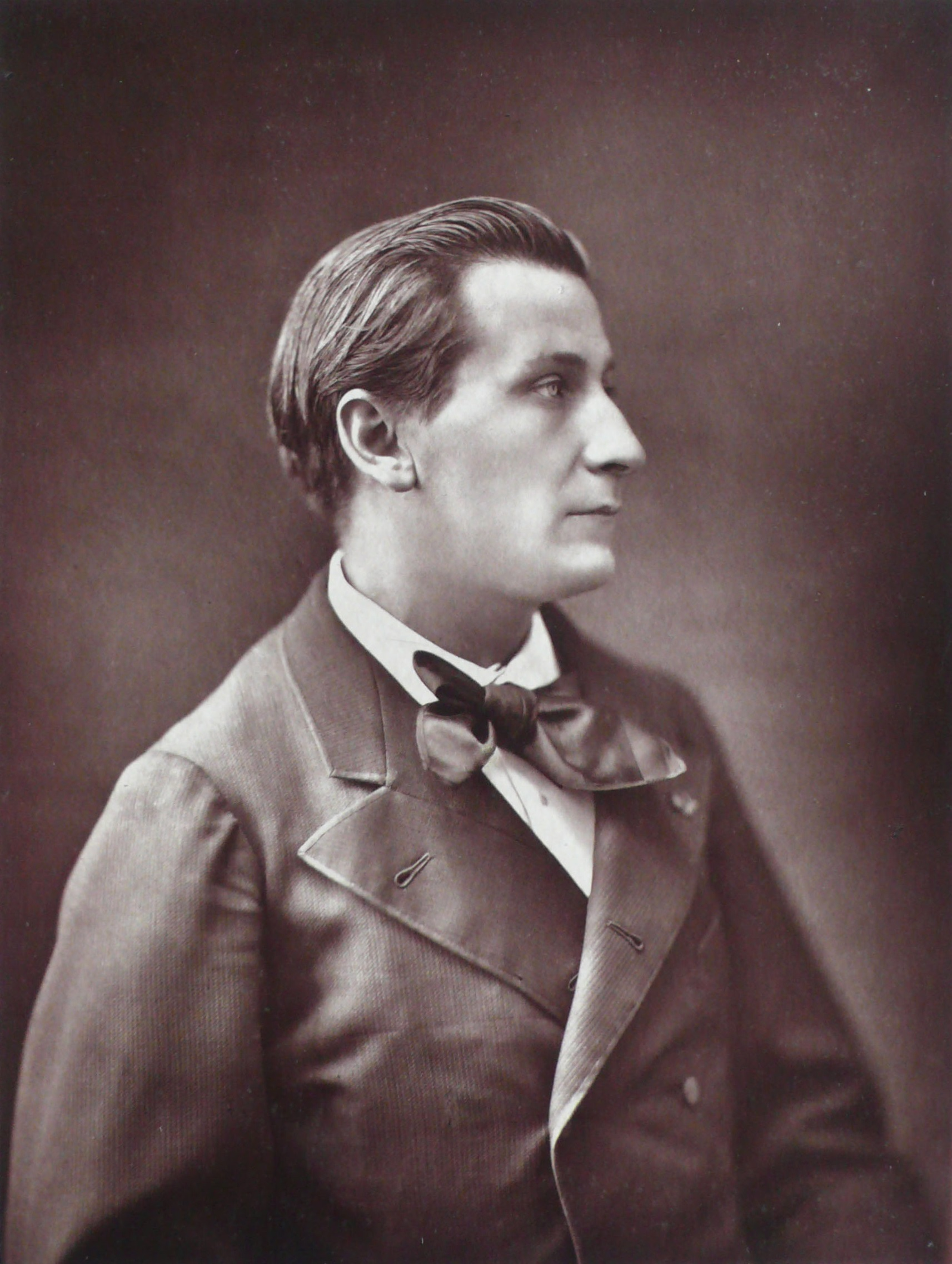 Portrait of Francois Coppee, c. 1880.